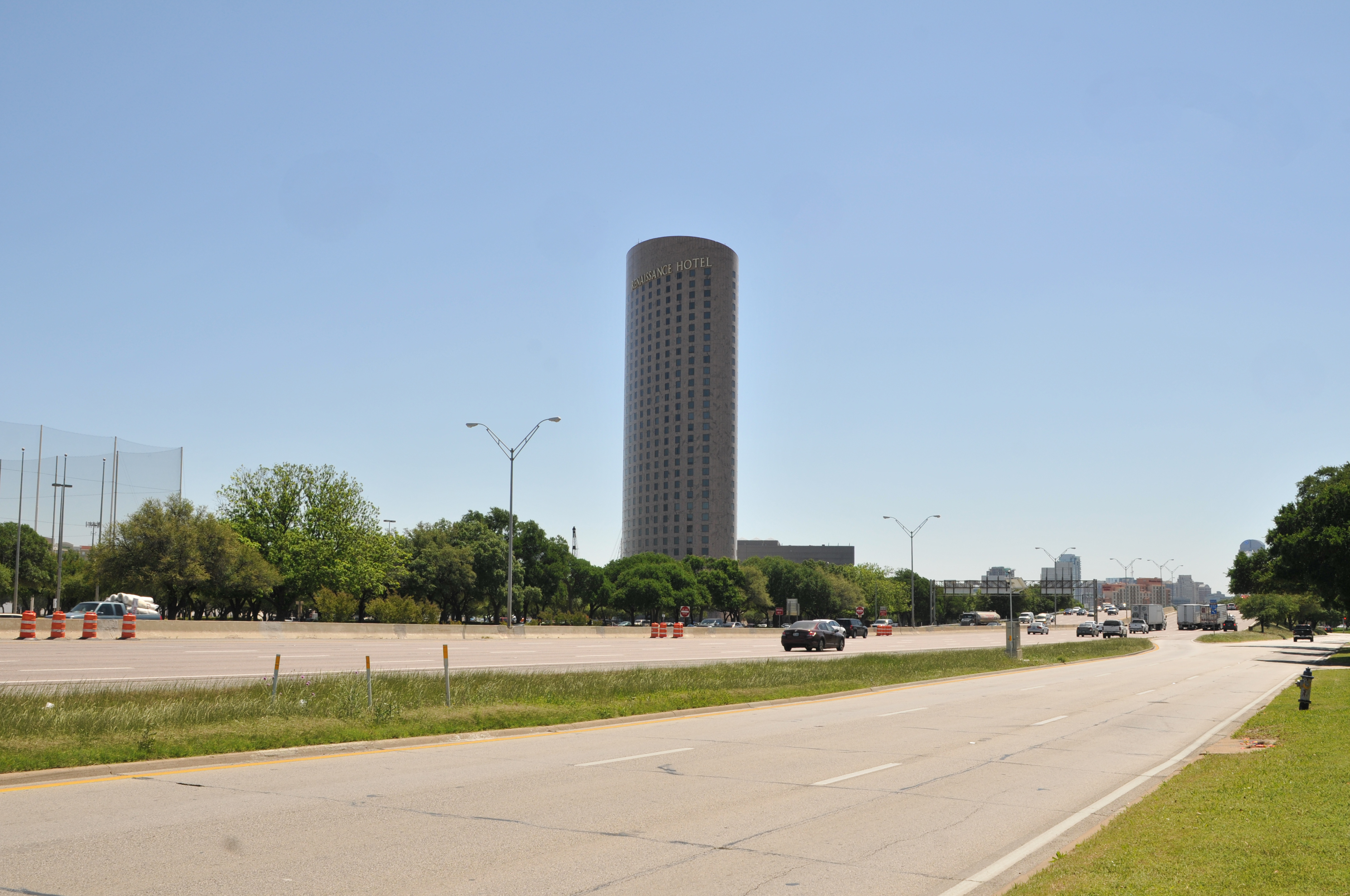 Renaissance Dallas Hotel seen from the other side of Interstate 35E Stemmons Freeway